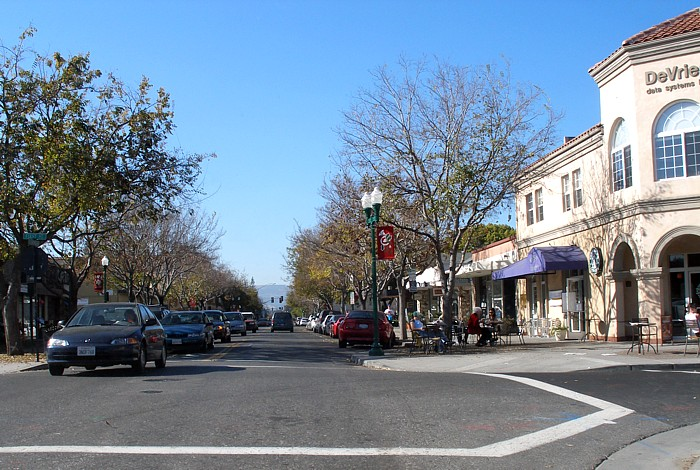 The downtown area of the city of Campbell. The perspective is westbound on East Campbell Avenue.